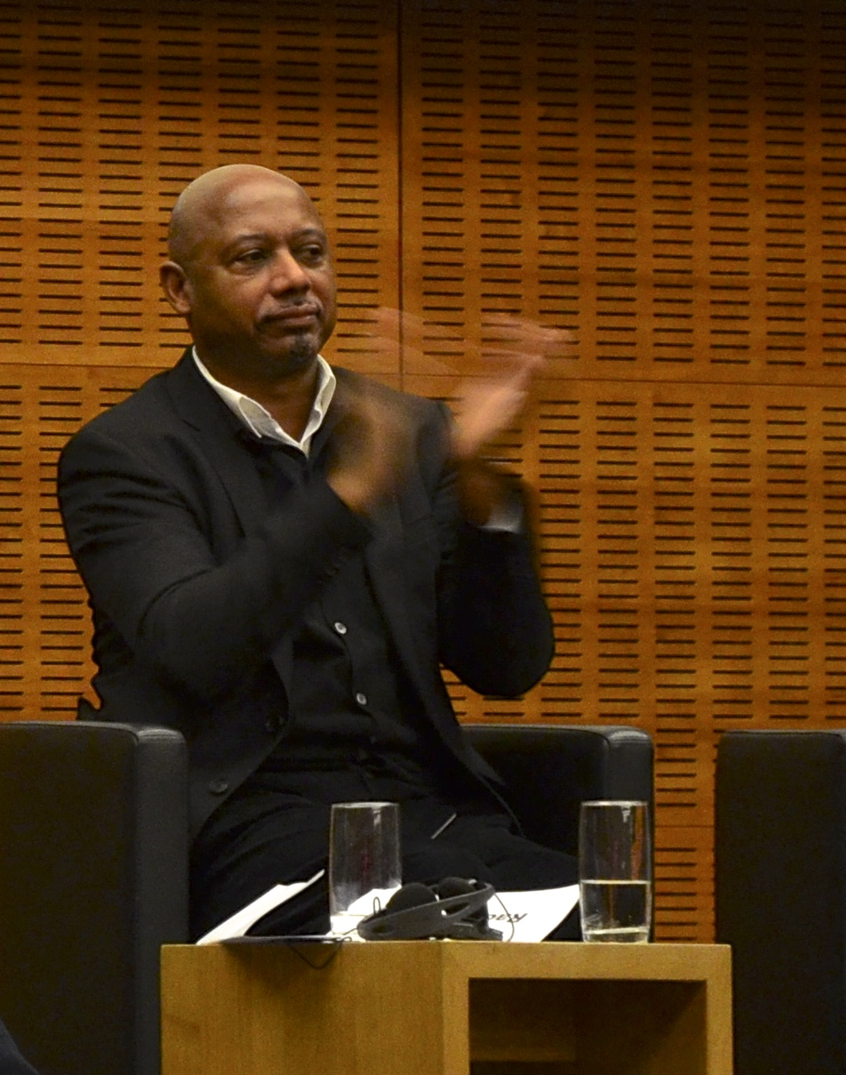 Raoul Peck at a panel discussion within the conference "Beyond Aid – From Charity to Solidarity" in Frankfurt